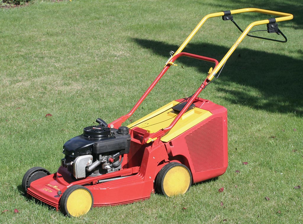 Wolf lawn mower